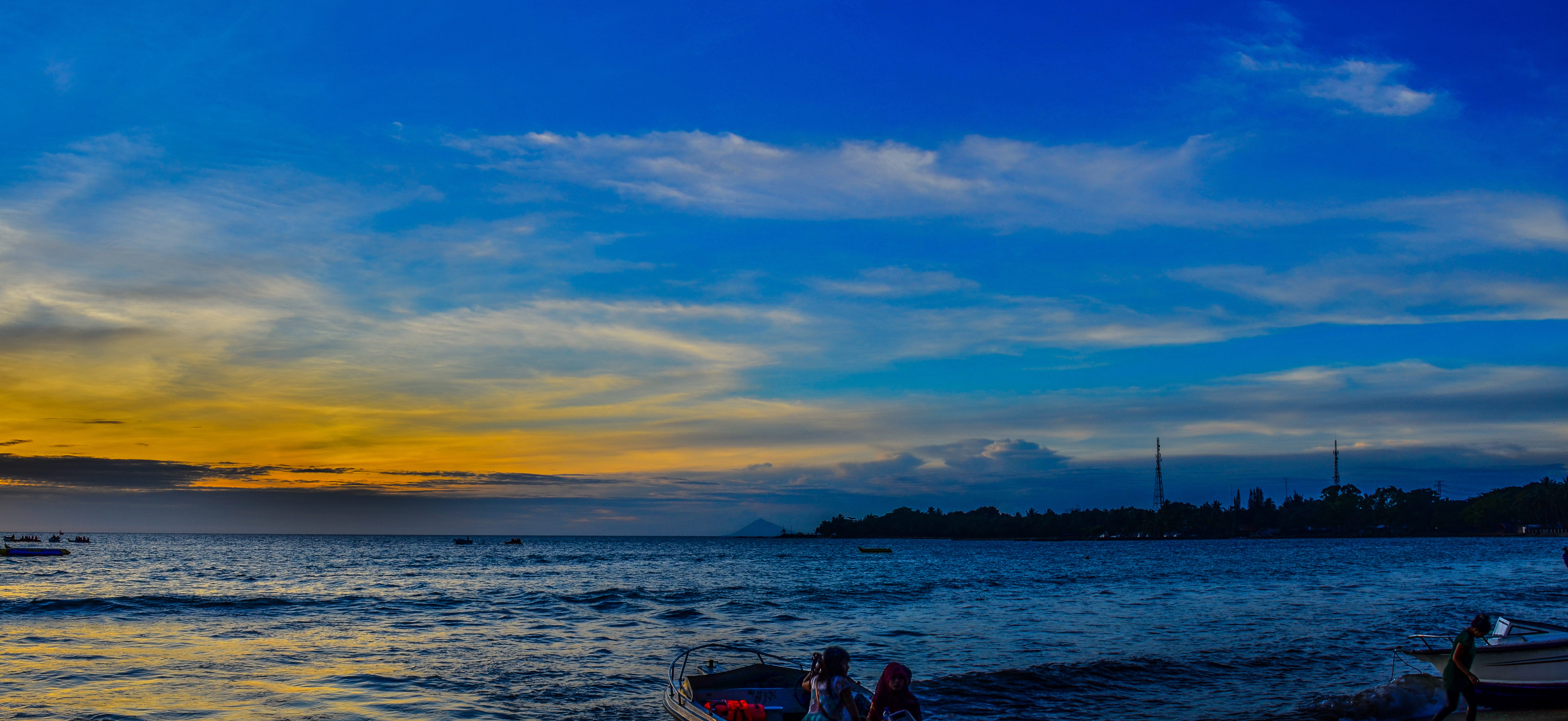 Tanjung Lesung Beach, Pandeglang, Banten.